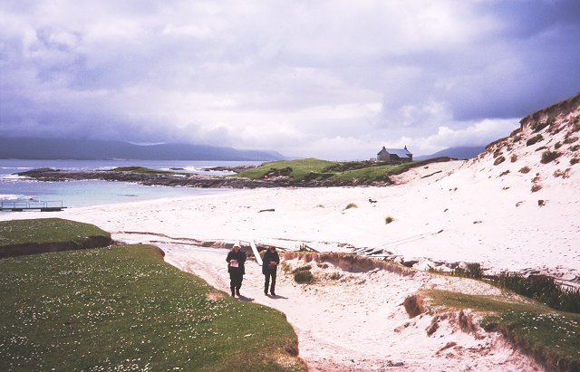 Beach, Paible. Paible was the site of the village on Taransay. Only a few buildings like the school still exist. The wind has got at the dunes here, eroding the machair.